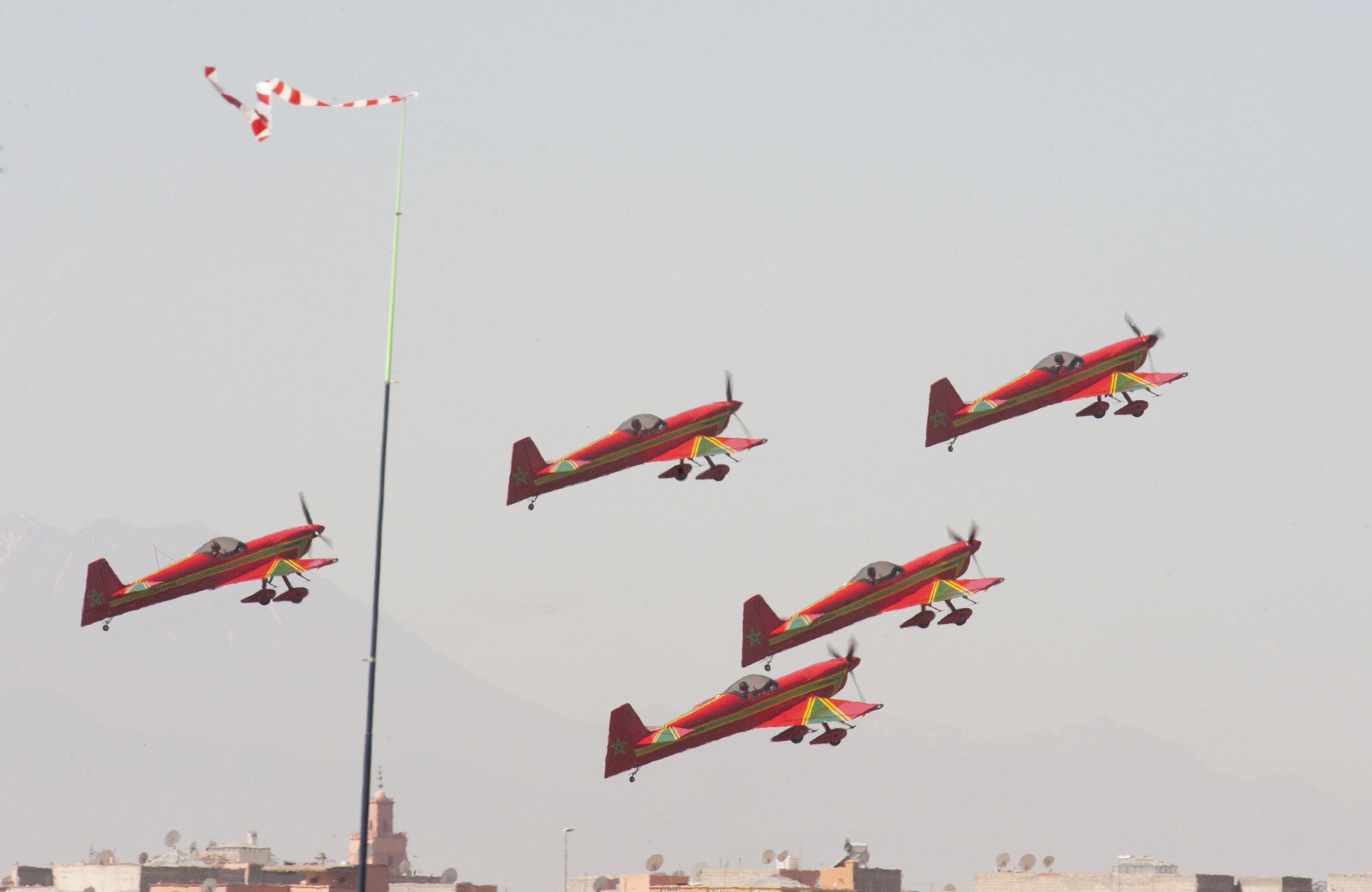 Pilots, with the Royal Moroccan Air Force Aerobatic Display Team, demonstrate the their aircrafts inflight capabilities during the International Marrakech Airshow in Morocco on Apr. 27, 2016. Several United States, independent and government owned aircraft were displayed at the expo in an effort to demonstrate their capabilities to a broad audience of individuals from approximately 54 other countries.